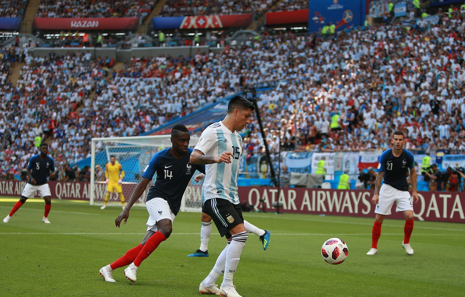 2018 FIFA World Cup Match 50, France v Argentina